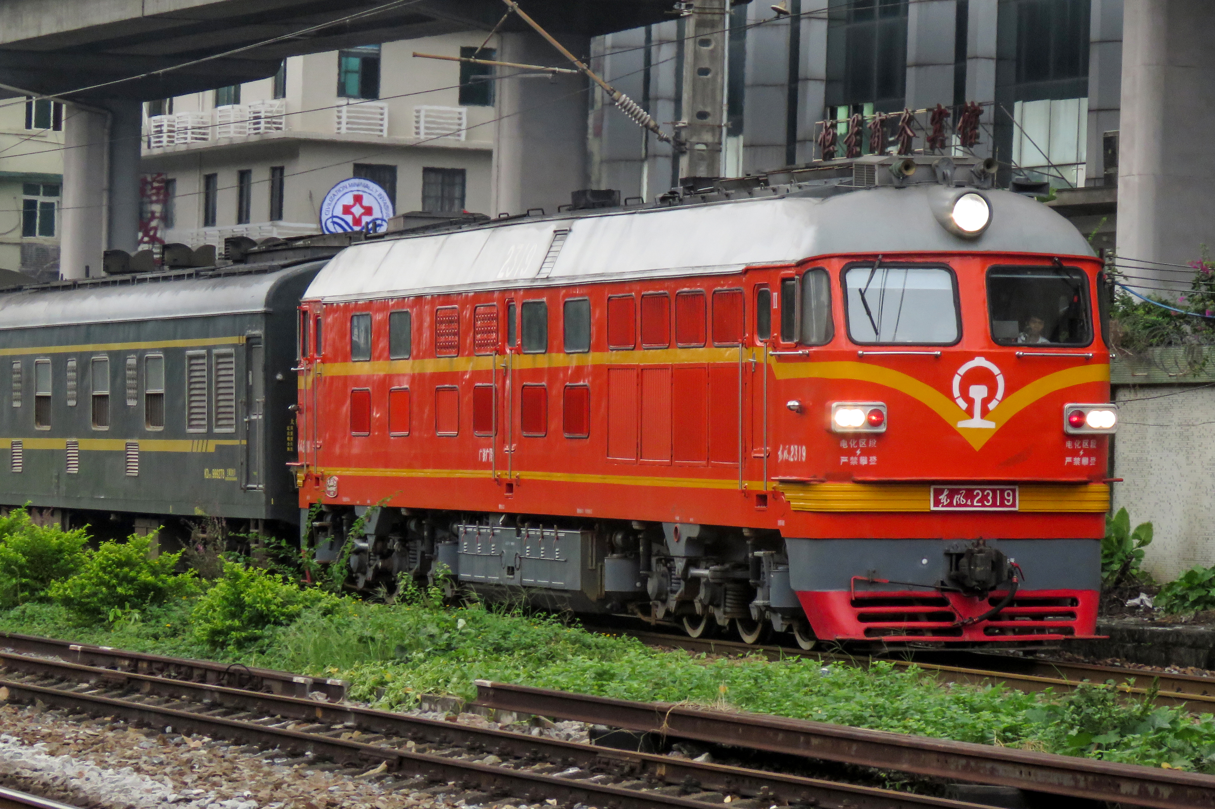 K237 from Taiyuan to Shenzhen West. Double acquaintance: I rode K237 from Taiyuan to Fenglingdu last year, and spotted 2319 at Pearl River Bridge yesterday!